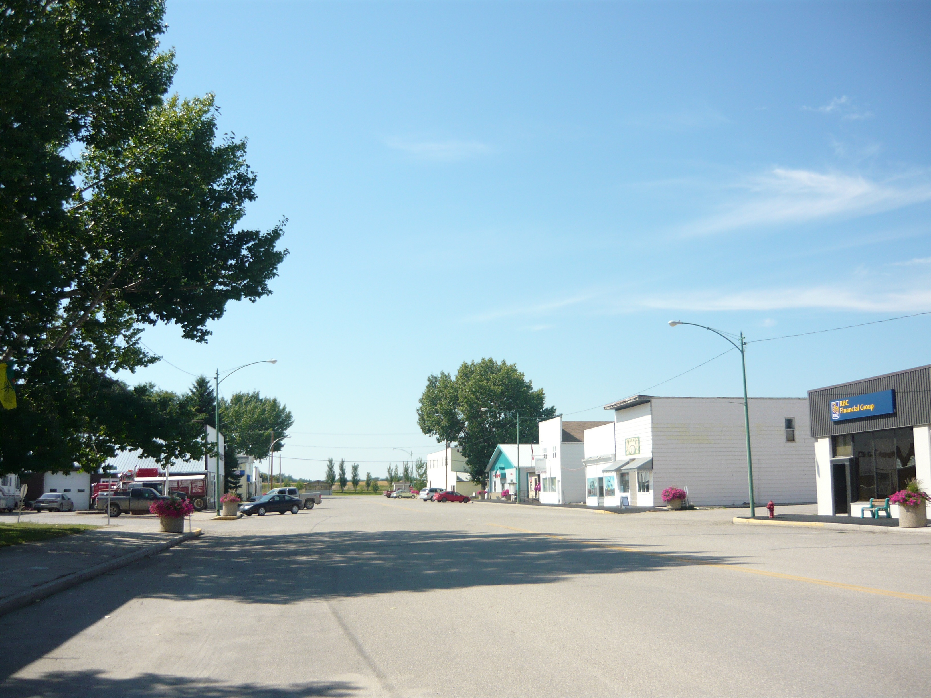 Royal Street (at intersection of Saskatchewan Avenue), Imperial, Saskatchewan, Canada.